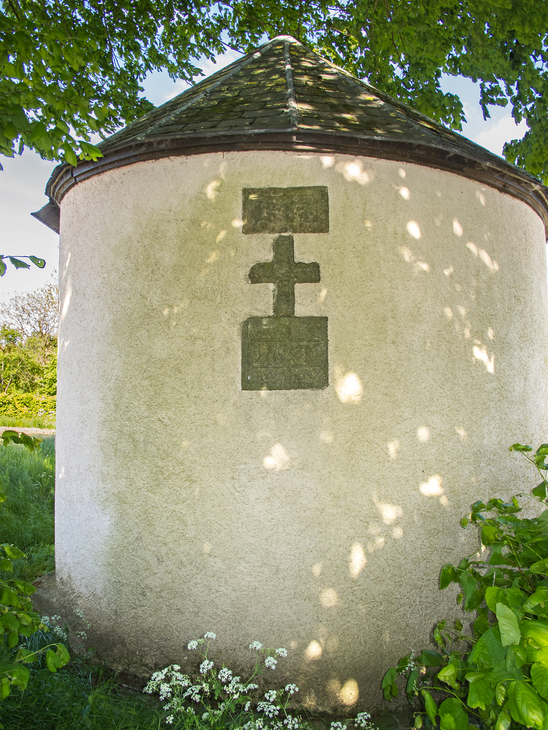 Chapel of Rentert